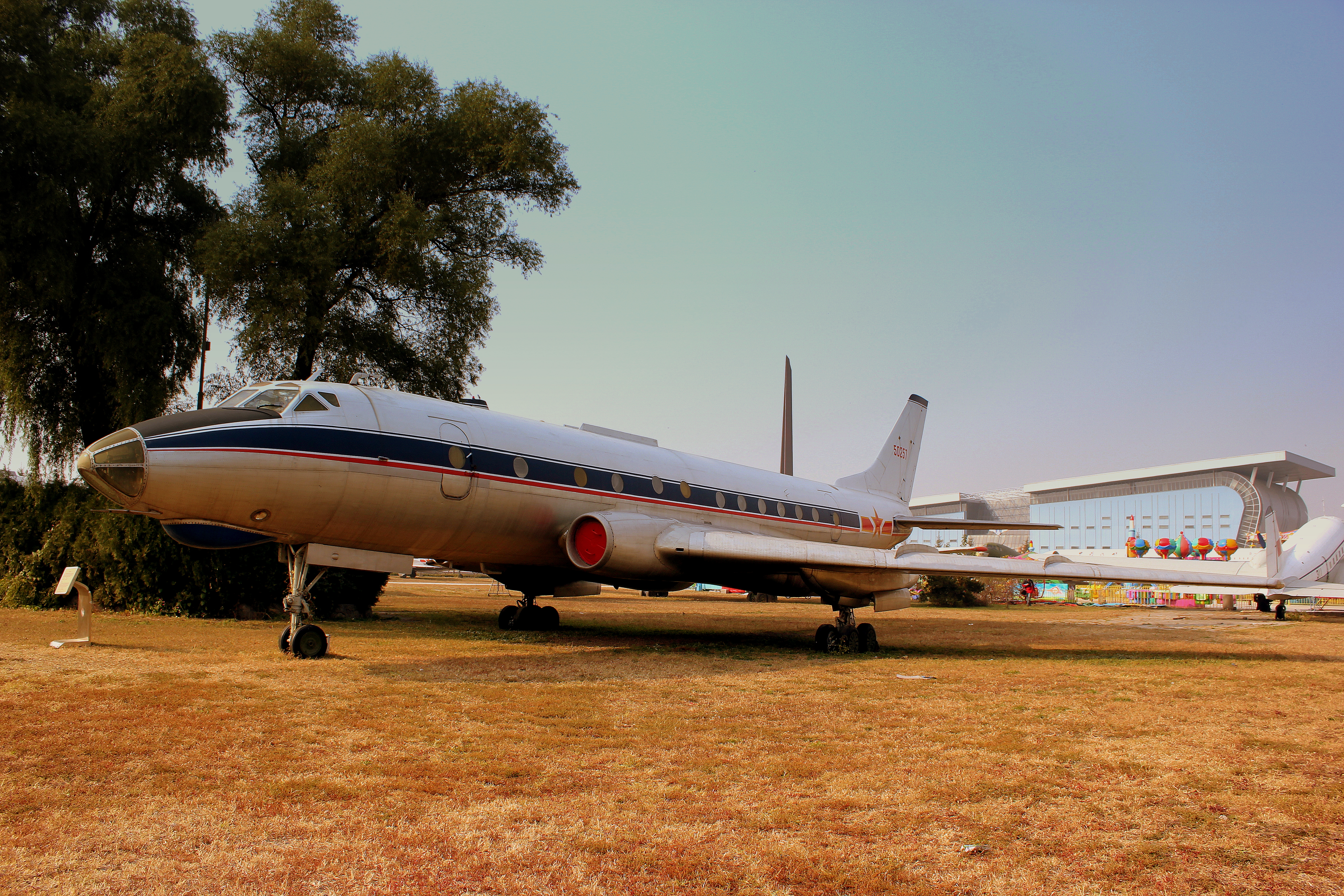 TUPOLEV TU124 CHINESE AIR FORCE DATANSHAN AVIATION MUSEUM BEIJING CHINA OCT 2012